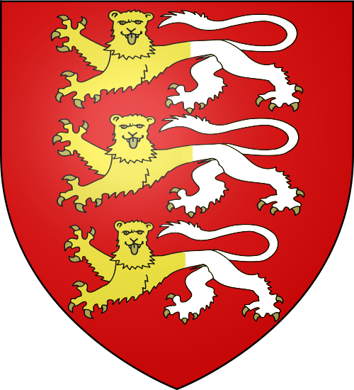 Arms of the O'Brien clan who ruled the Kingdom of Munster and the Kingdom of Thomond.